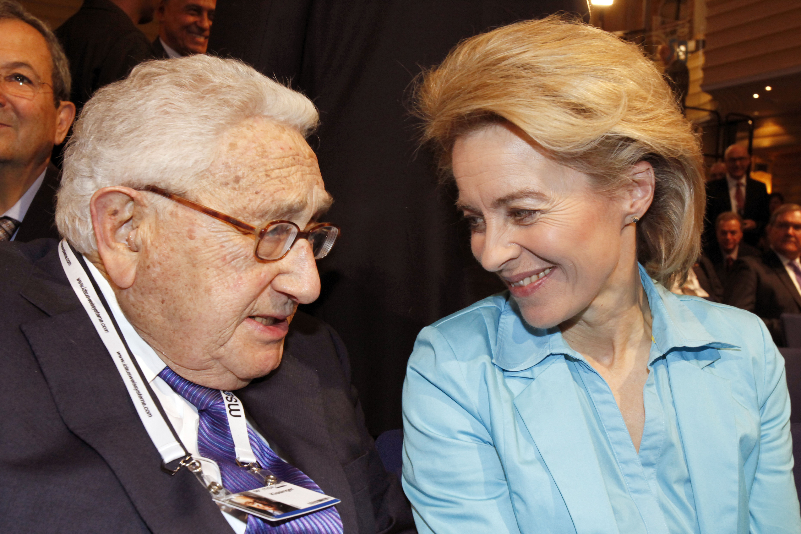 50th Munich Security Conference 2014: Henry Kissinger and Ursula von der Leyen: Henry Kissinger (Former U.S. Secretary of State) and Ursula von der Leyen (Federal Minister of Defence, Federal Republic of Germany).